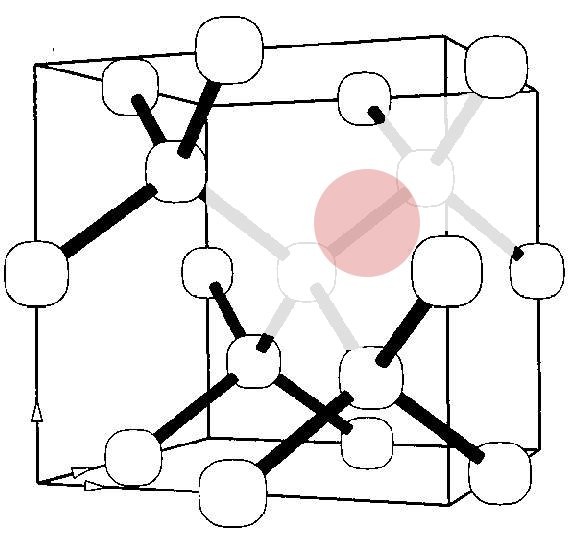 semivacancy model in diamond